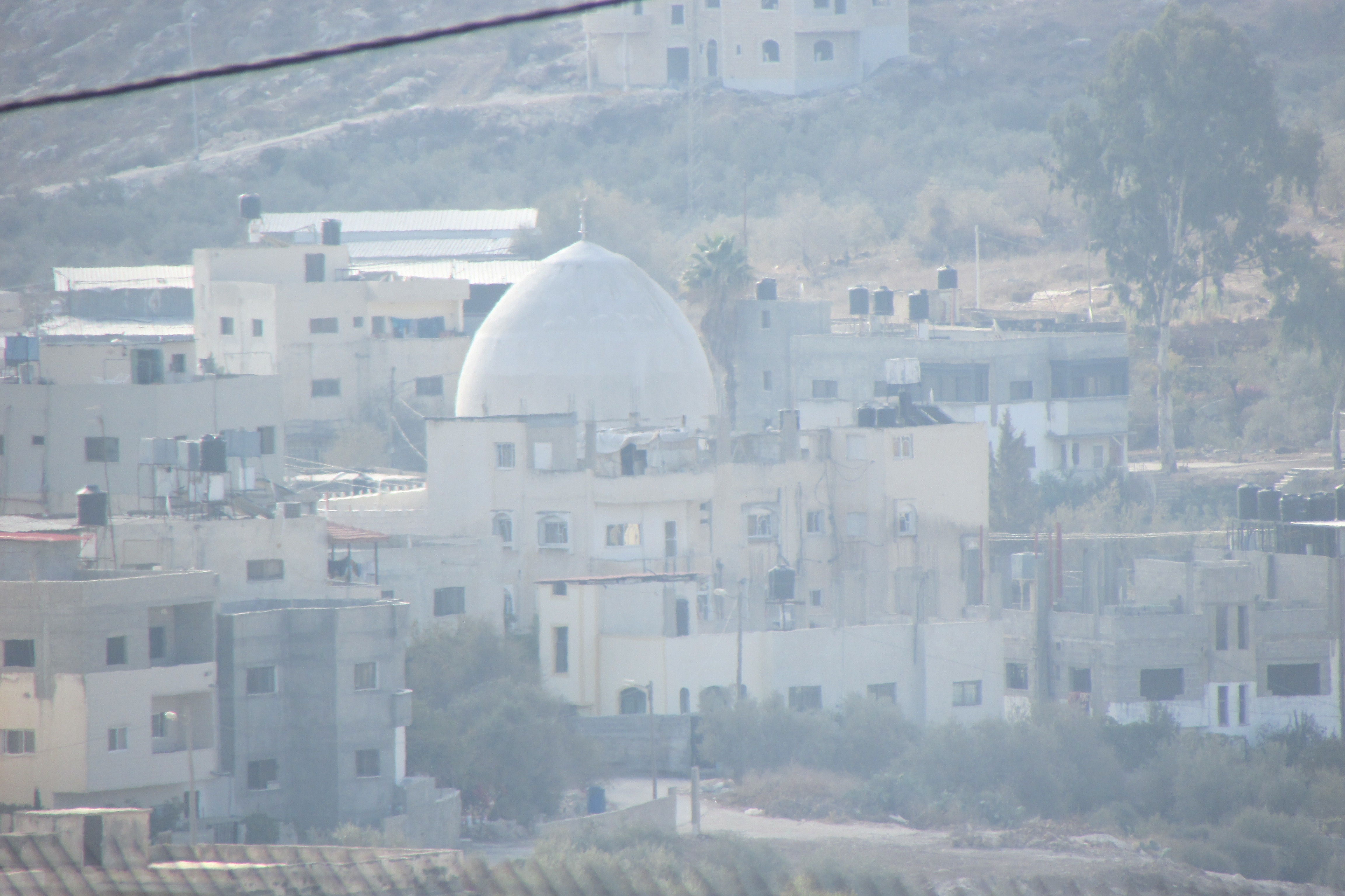 Deir Sharaf from Shavei Shomron.